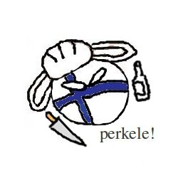 Finnball, an angry countryball in ushanka, with vodka and a Finnish knife.